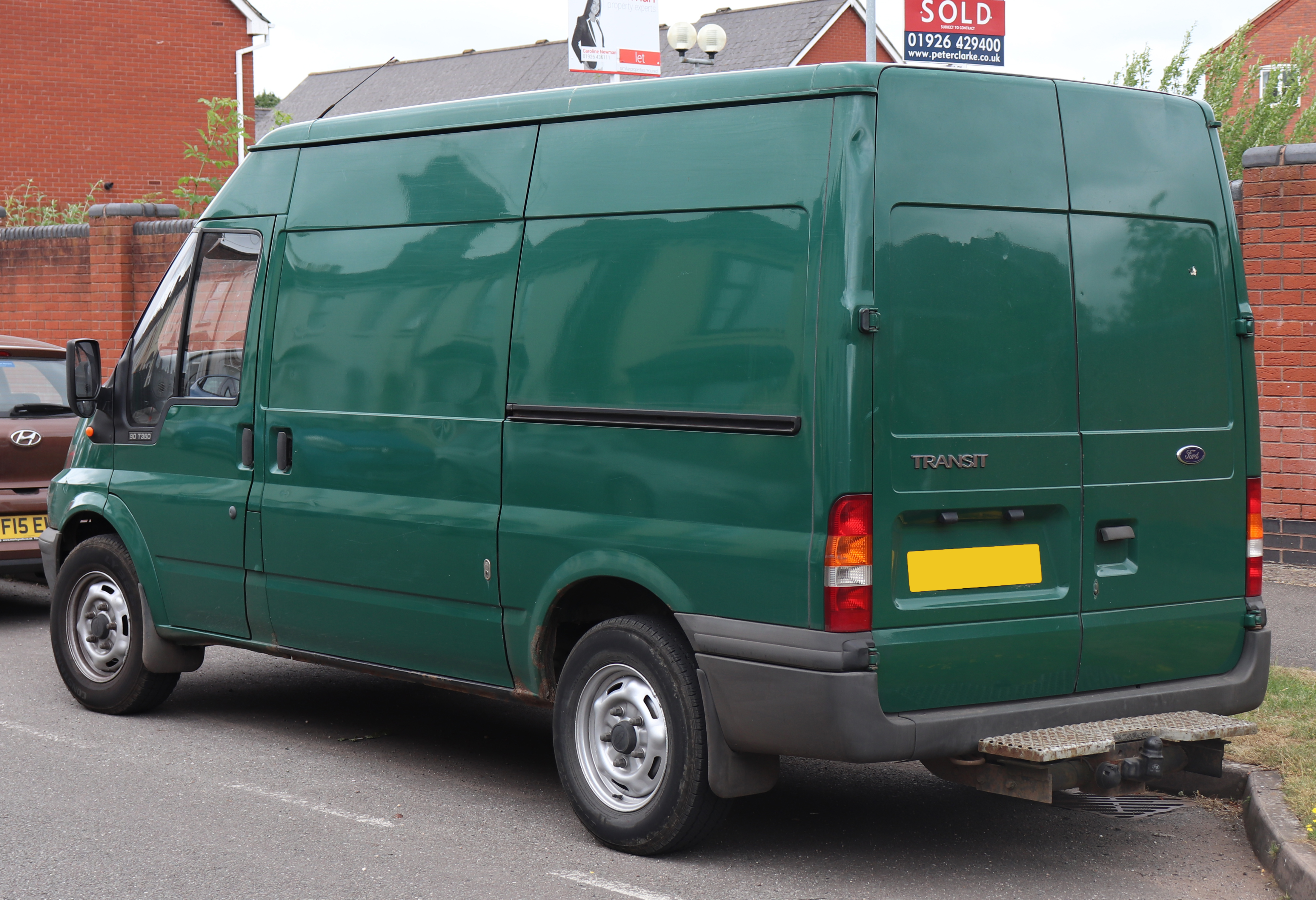 2001 Ford Transit 350 MWB TD 2.4 Rear Taken in Leamington Spa